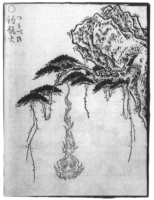 Tsurube-bi (釣瓶火, a fireball dropping out of a tree) from the Gazu Hyakki Yakō